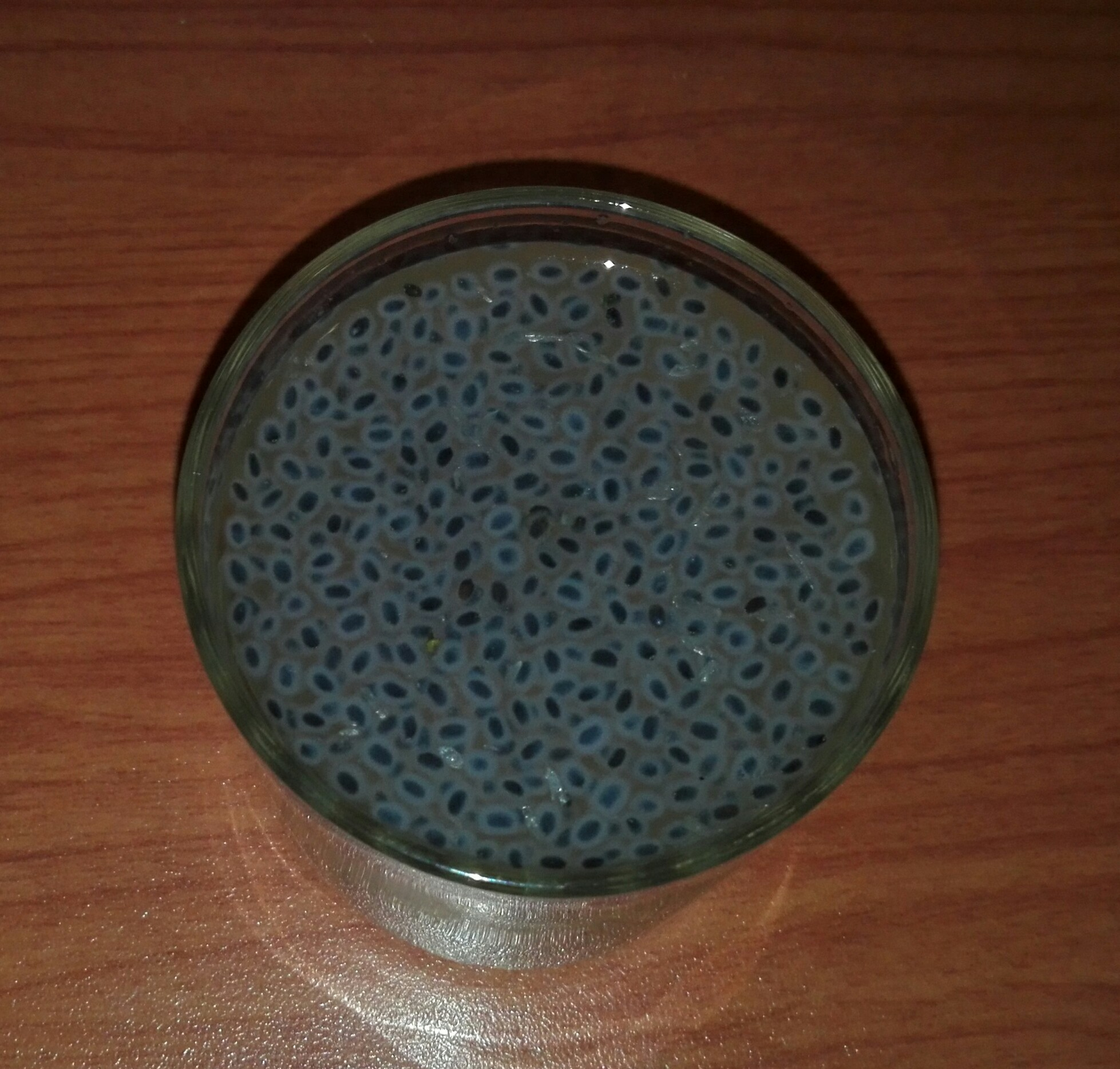 Tokhm Sharbati, is an Iranian drink which is made of basil seeds.